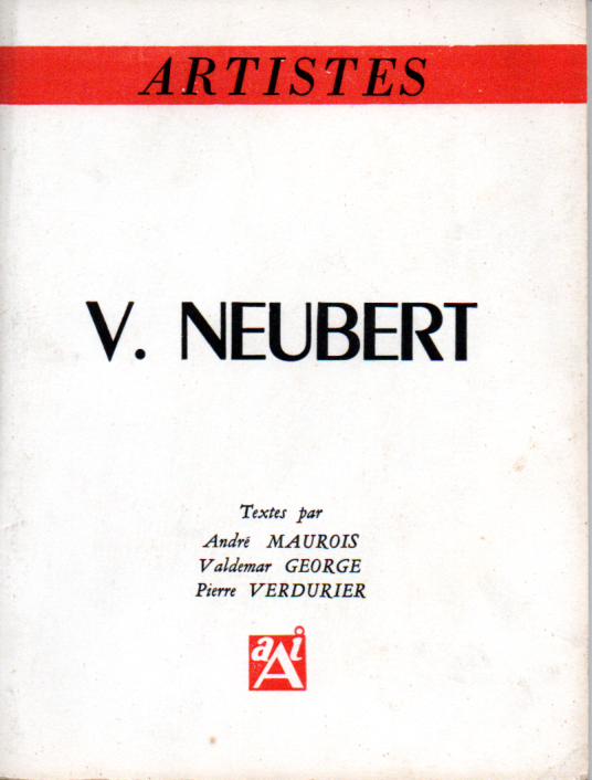 V NEUBERT